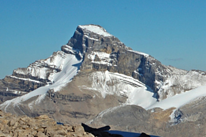 Mount St Bride seen from Fossil Mountain in Banff Natl Park